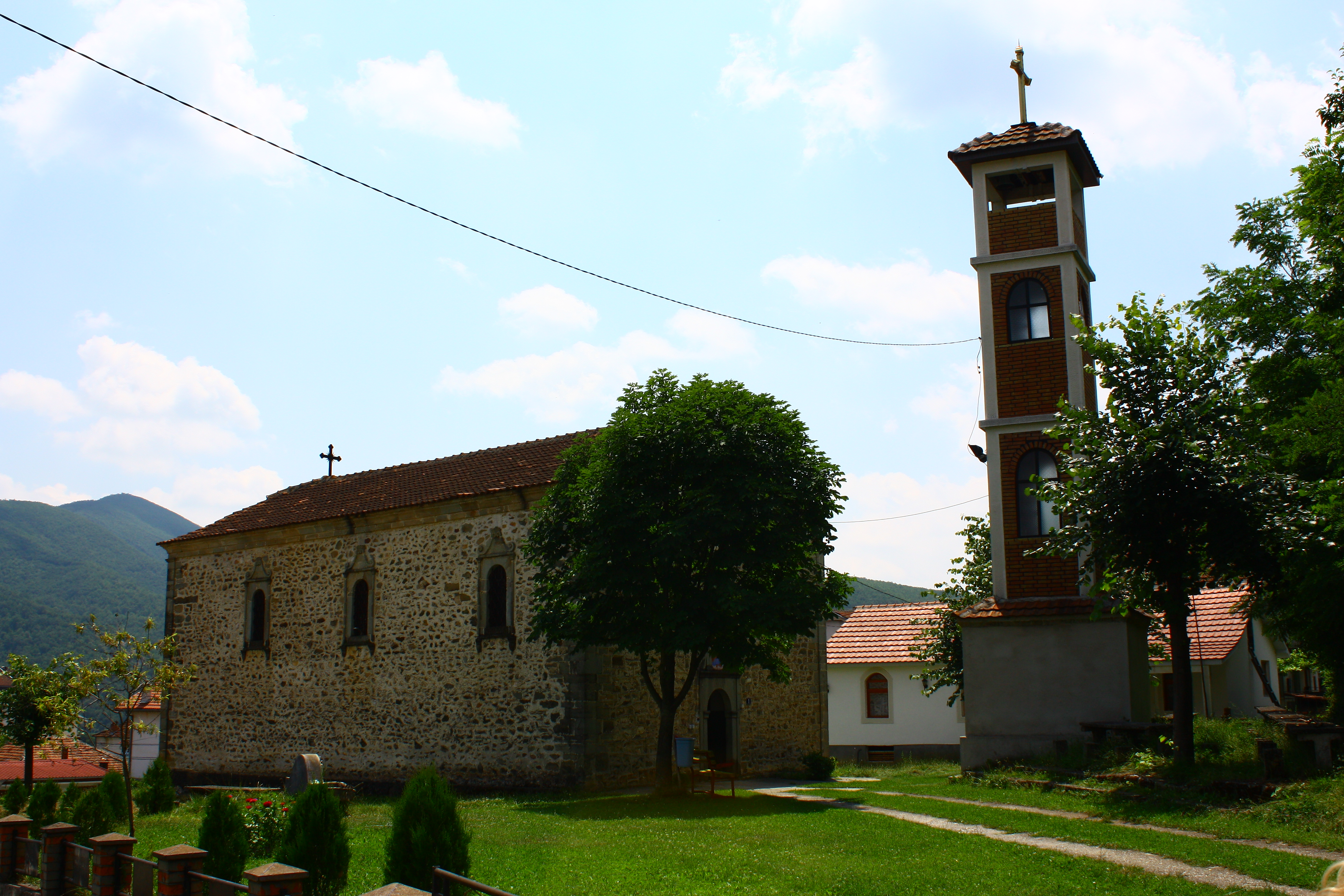 Holy Mother of God. The main Catedral and cental parish Church in Makedonski Brod, Macedonia